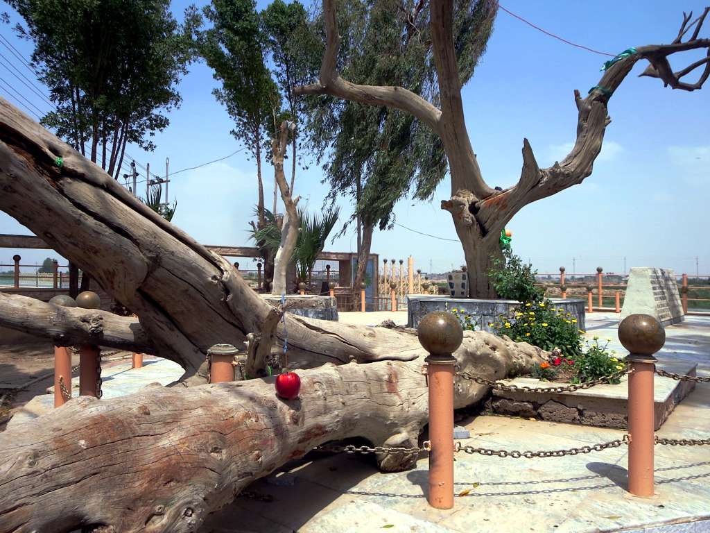 Adam Tree in Basra, Qurna